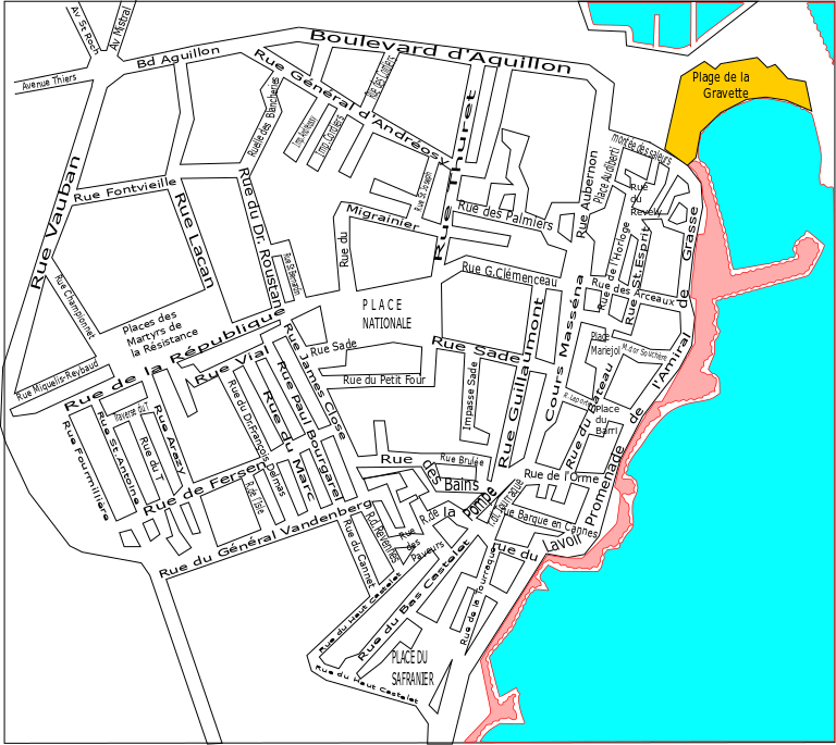 Antibes vieille ville